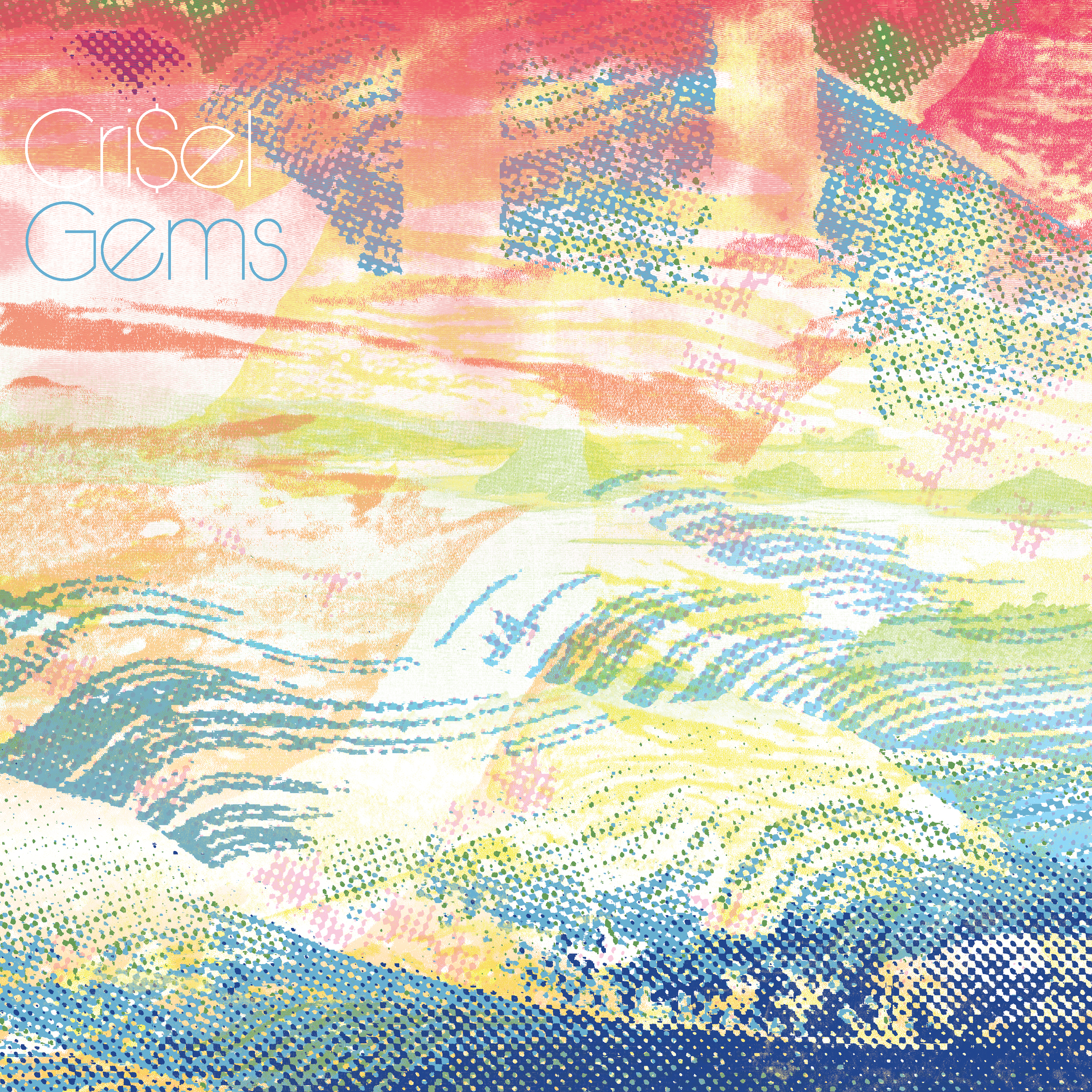 Paul Bryan Cri$el Gems LP front cover